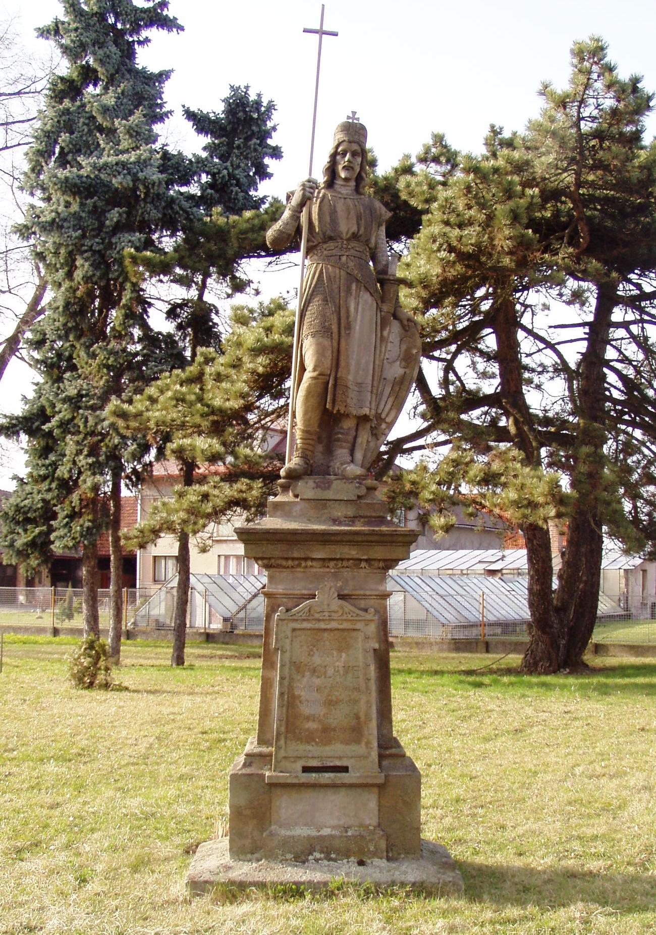 Velká Jesenice - Statue of St. Wenceslaus